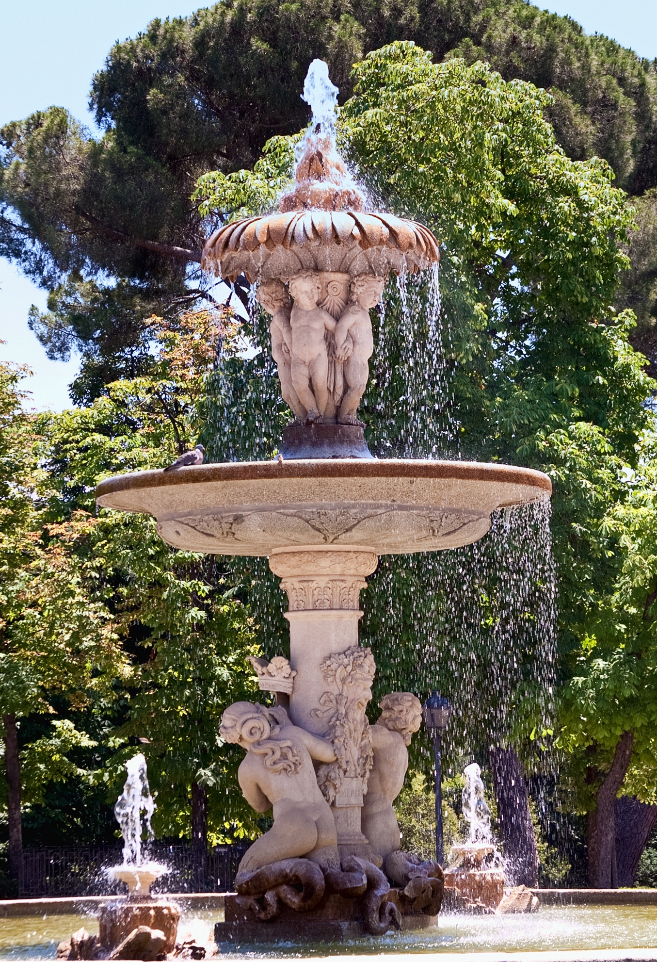 Fountain of the Artichoke in the Retiro Park in Madrid (Spain).